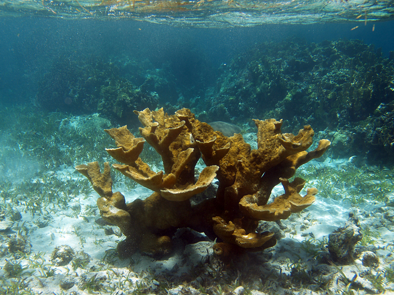 Acropora palmata (Elkhorn coral)